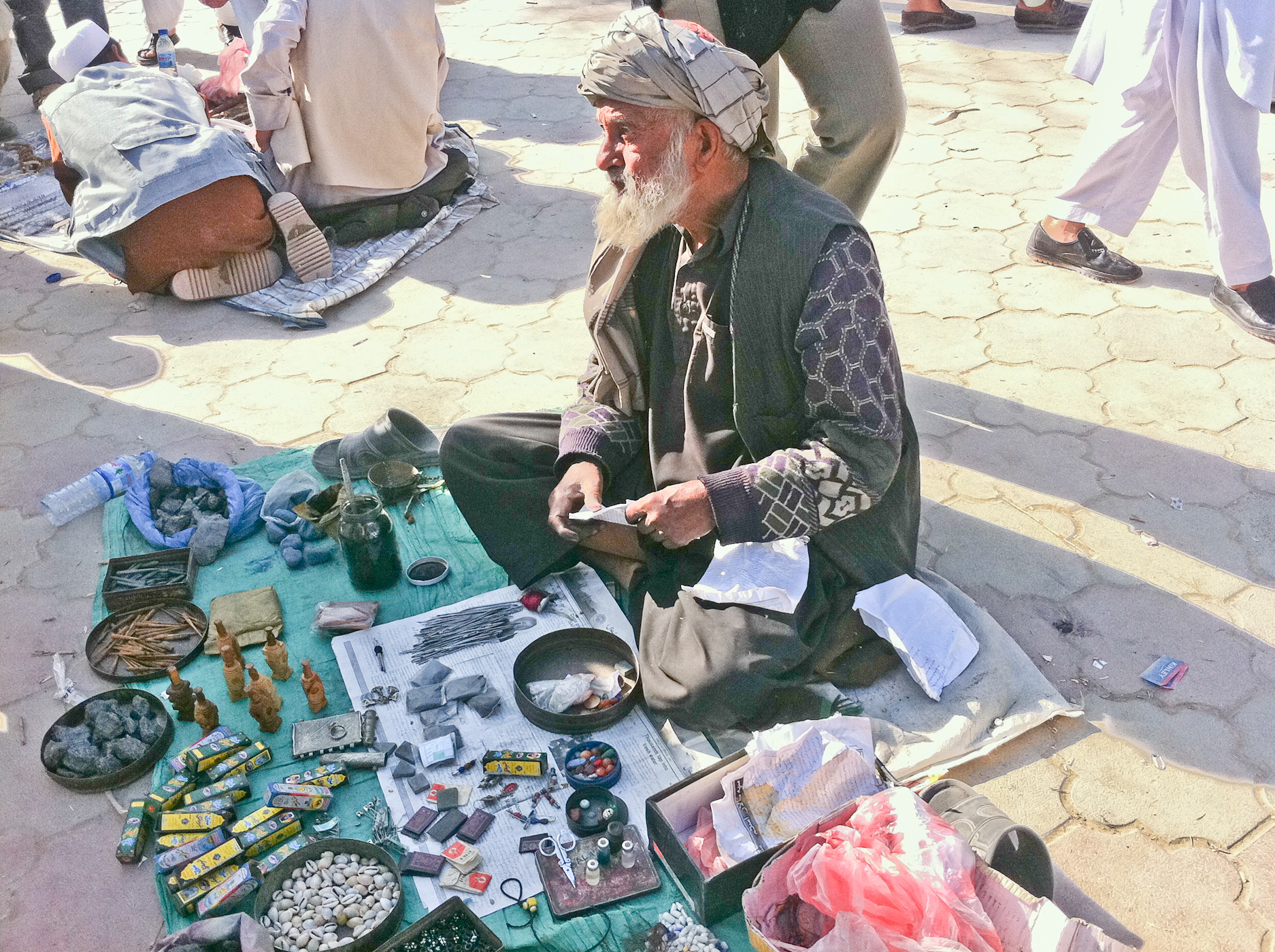 Spread of Wares